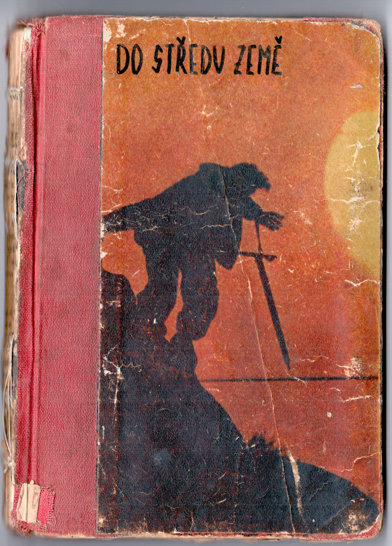 At the Earth's Core, czechoslovak edition, 1927, publishing house L. Sotek